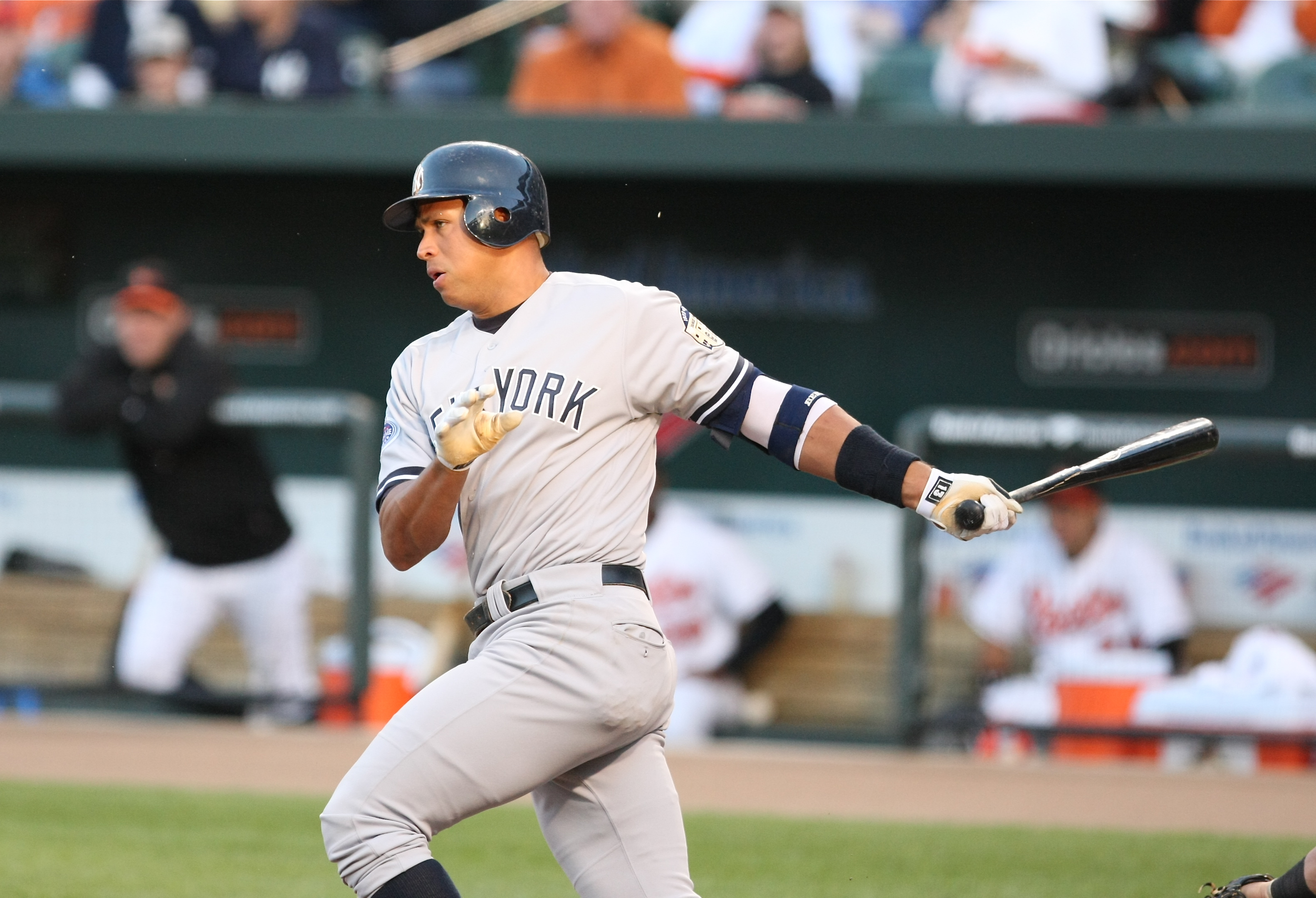 Alex Rodriguez